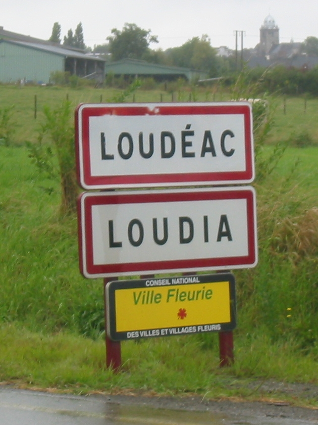 Bilingual sign in French and Gallo in Loudéac/Loudia, Brittany (France)